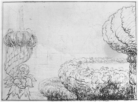 Pen and pencil drawing by Thomas Cole as reprinted in journal article (see 'Original source'). Caption in article: "Fantastic fountain and basins with a view of the sea". From his Sketchbook No. 2, Detroit Institute of Arts, 39.559